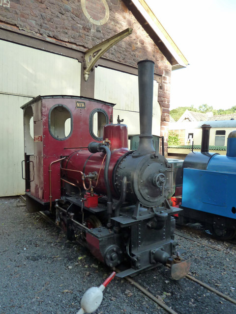 Devon Railway Centre - steam locomotive. This centre is in and around the former Bickleigh Station and concentrates on narrow gauge industrial locomotives and rolling stock. This is No. 14 an Orenstein & Koppel 0-4-0 well tank built in 1912 and used in South America. This now operates on occasional open days.